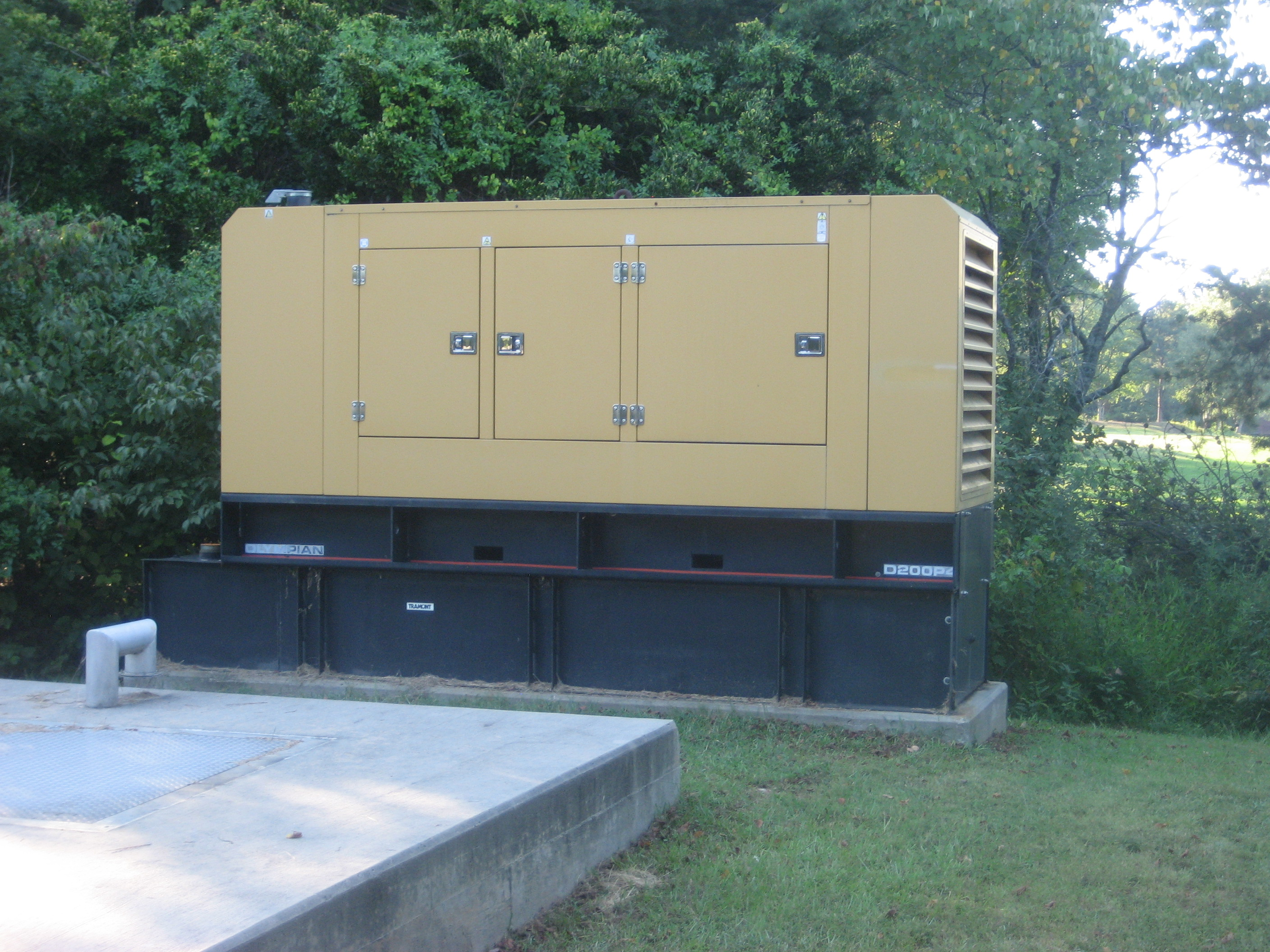 This is a 200 kW diesel generator set used for emergency standby service for the sewer district in a suburb of Atlanta. Because it is situated in a residential area, a sound attenuated enclosure is used which limits the noise to 72 db(A) at 23 ft -- that's equivalent to a normal conversation.